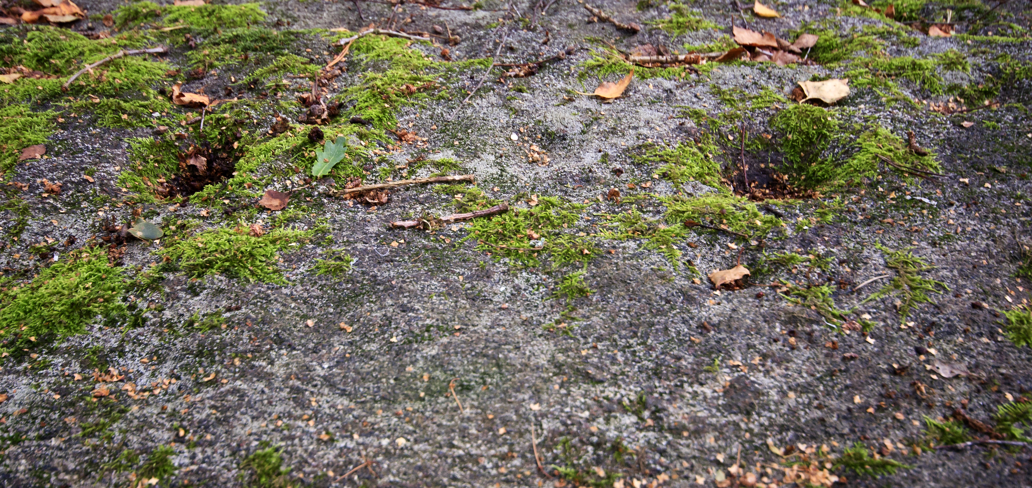 Cup marks on the "Pyssestenen" archaelogical find near Röke in Hässleholm Municipality, Sweden.